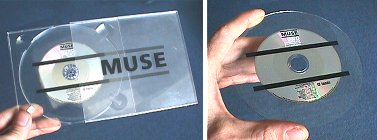 The UNO CD single. Transparent sleeve and a partially transparent CD.